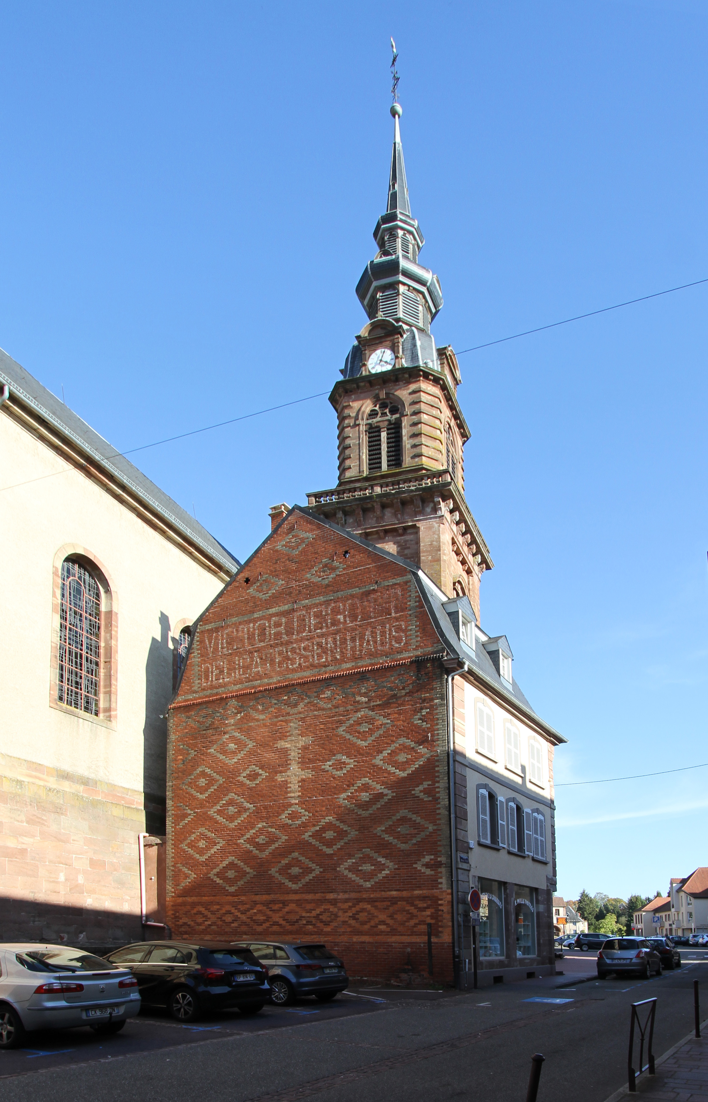 Church of Saint Catherine in Bitche